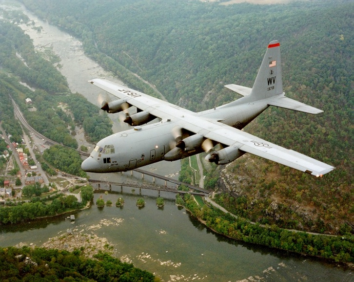 A U.S. Air Force Lockheed C-130H Hercules (s/n 94-6701) from the 167th Airlift Squadron, 167th Airlift wing, West Virginia Air National Guard, flying over Harpers Ferry, West Virginia (USA), the junction of the Potomac and Shenandoah (left) rivers. The 167th Airlift Wing transitioned to the Lockheed C-5 Galaxy in 2006.